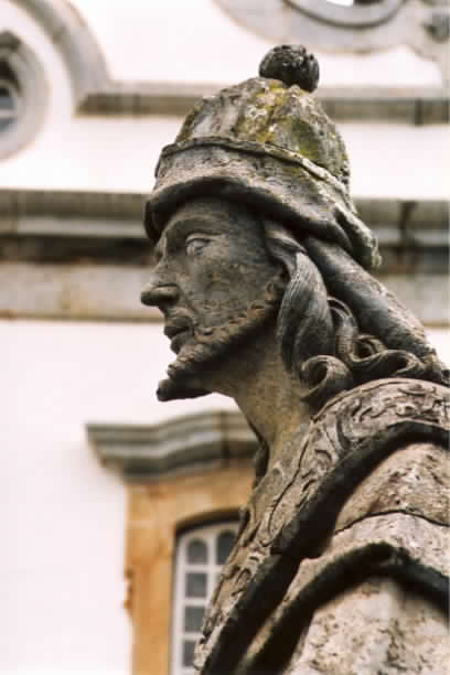 Photographs by Einar Einarsson Kvaran Aleijadinho